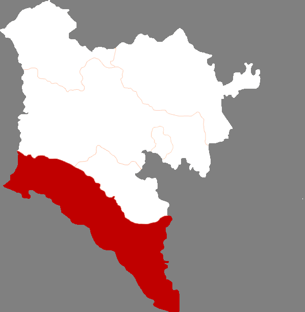 Locator map of Horqin Right Middle Banner in Hinggan League, Inner Mongolia, China